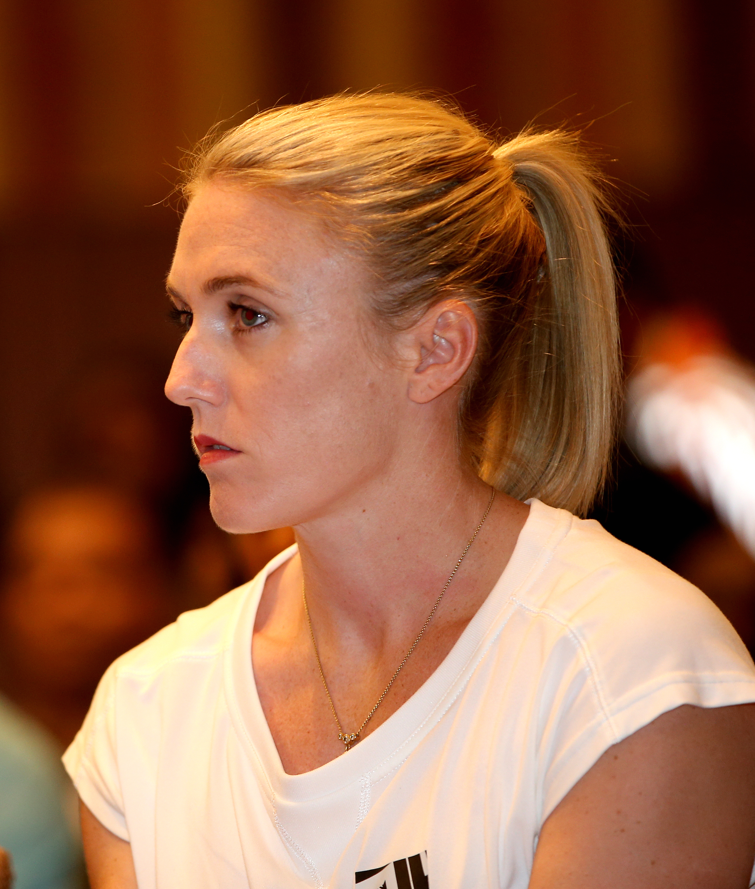 Australian hurdler Sally Pearson during an interactive session ahead of the 2015 Diamond League in Doha.